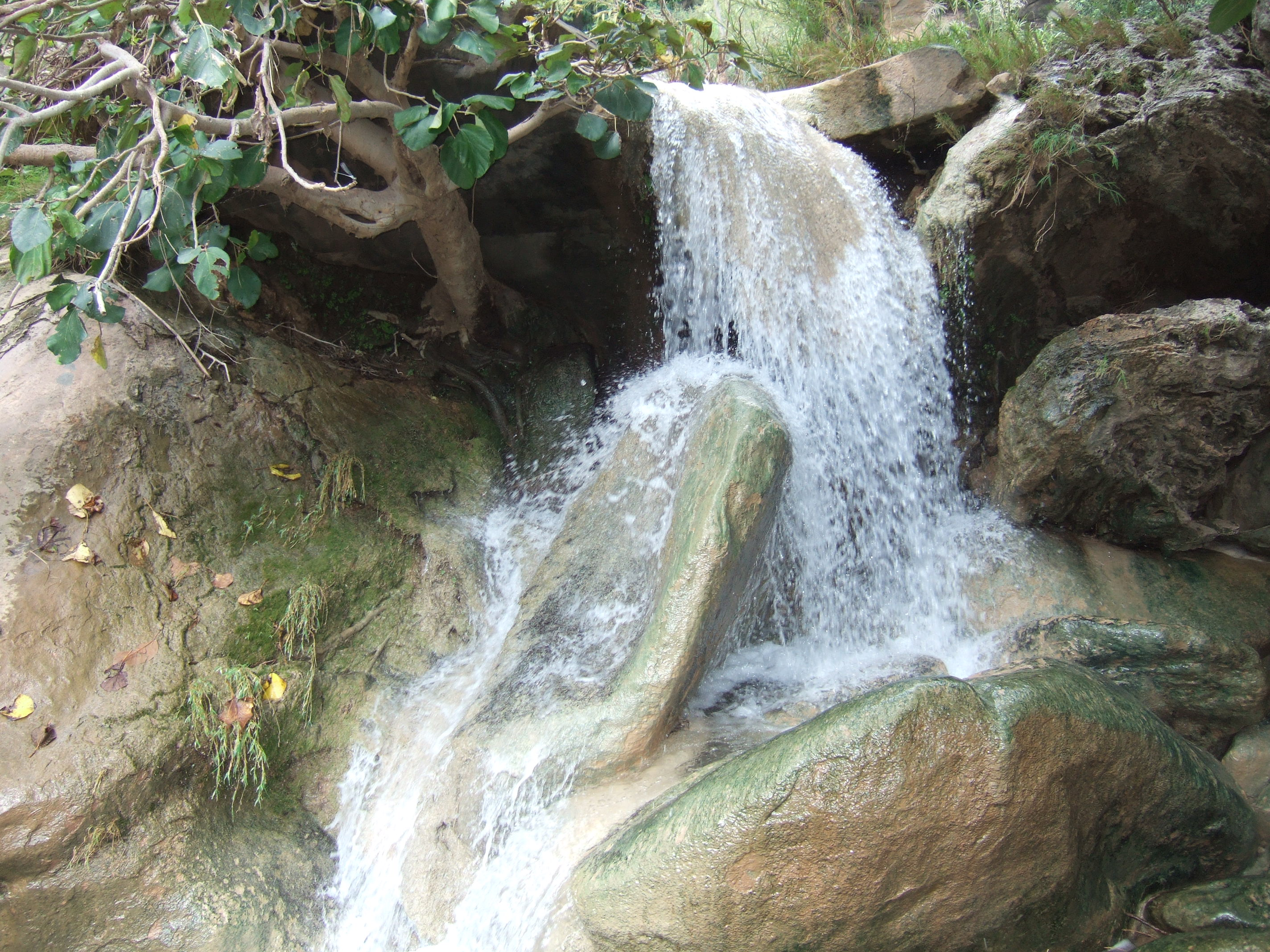 Ashraf Chhambar is a waterfall in Punjab, Pakistan.